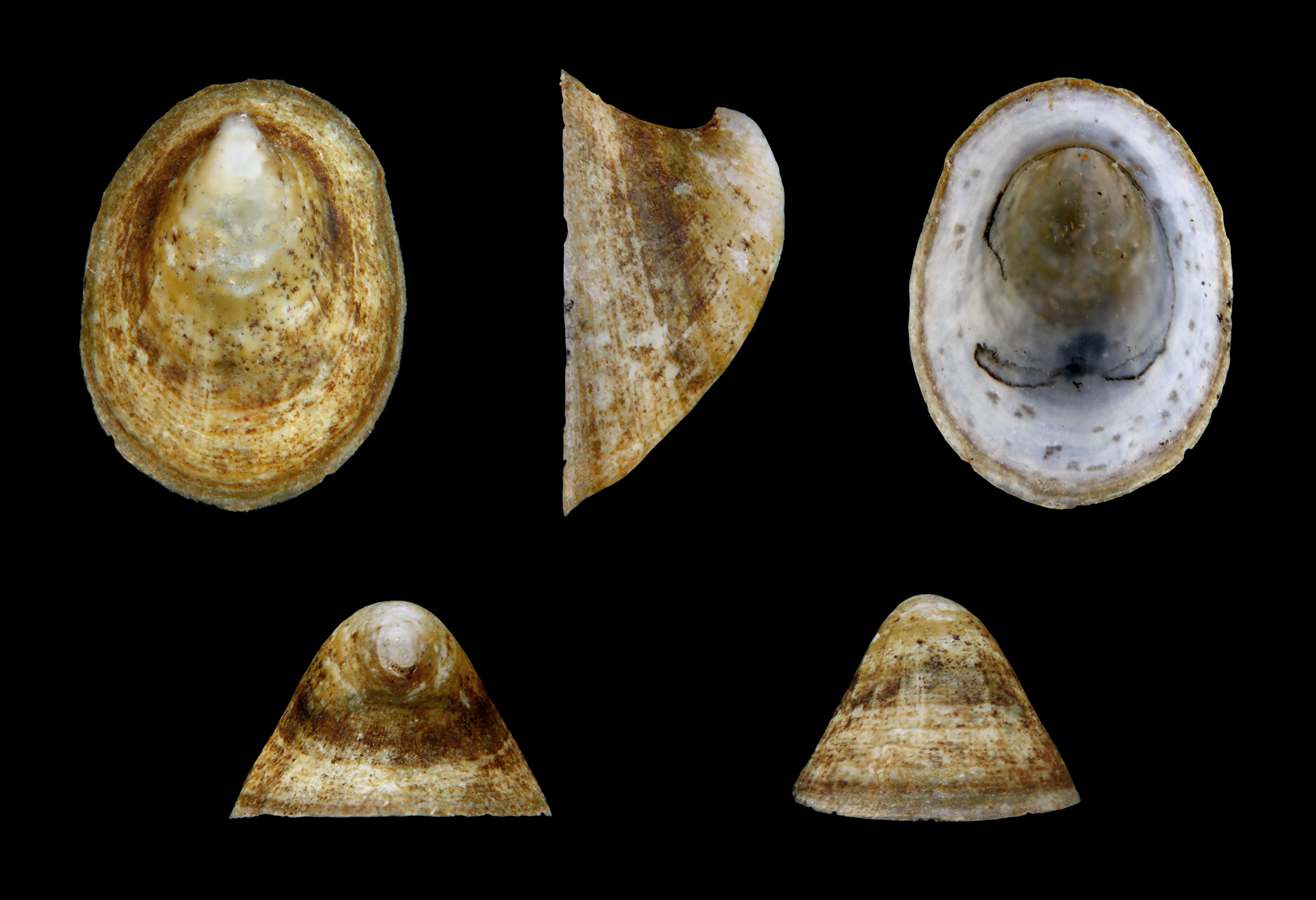 River Limpet, Length 0.8 cm; Originating from the river Wutach near Stühlingen-Grimmelshofen, Germany; Shell of own collection, therefore not geocoded. Dorsal, lateral (right side), ventral, back, and front view.